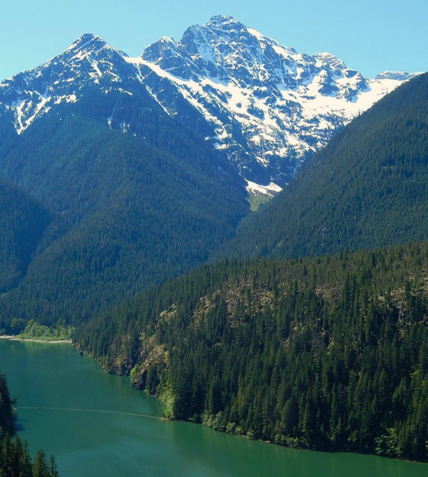 Colonial Peak and Thunder Arm of Diablo Lake seen from Diablo Lake overlook along the North Cascades Highway.